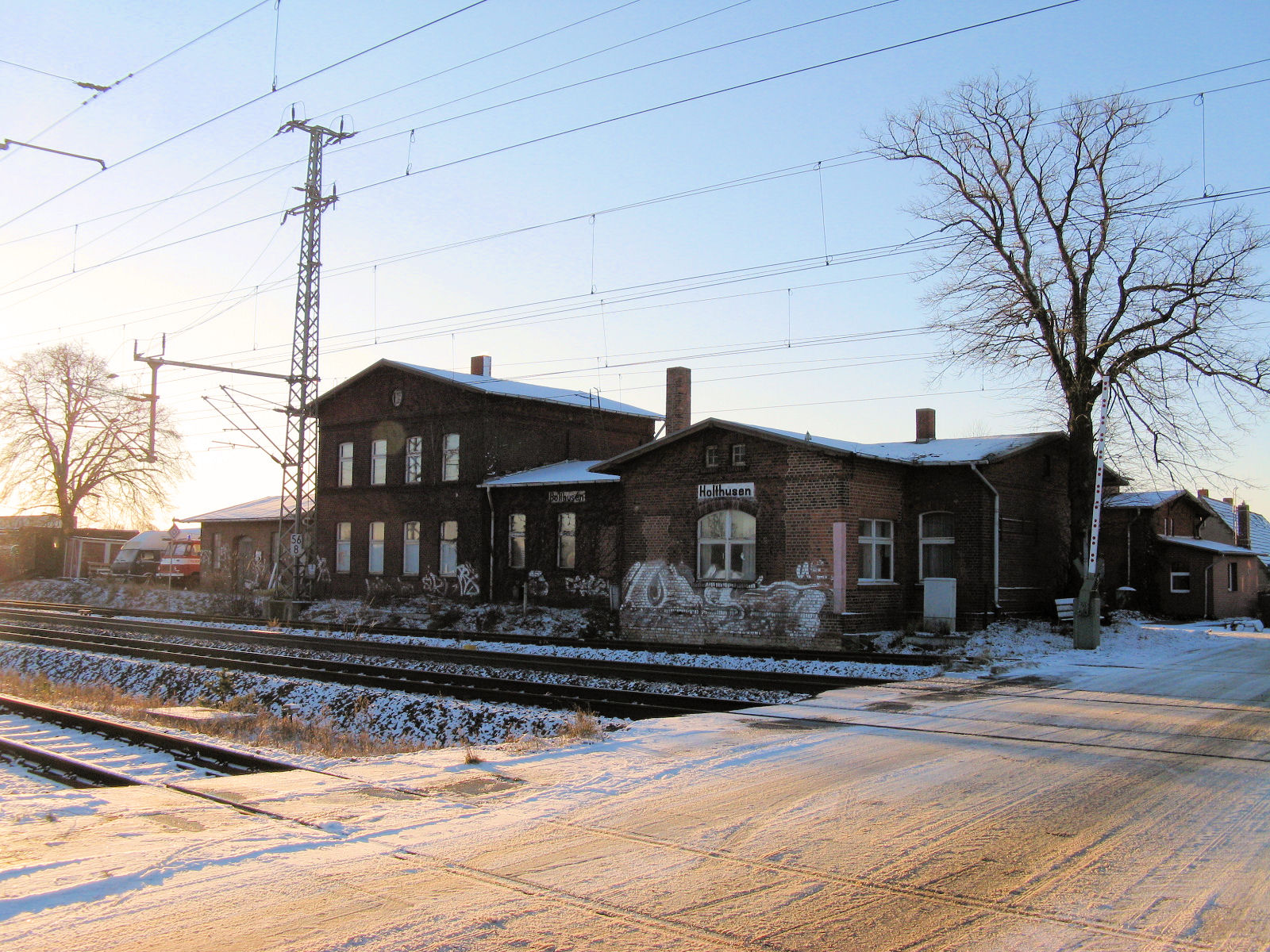 Train station in Holthusen, district Ludwigslust-Parchim, Mecklenburg-Vorpommern, Germany